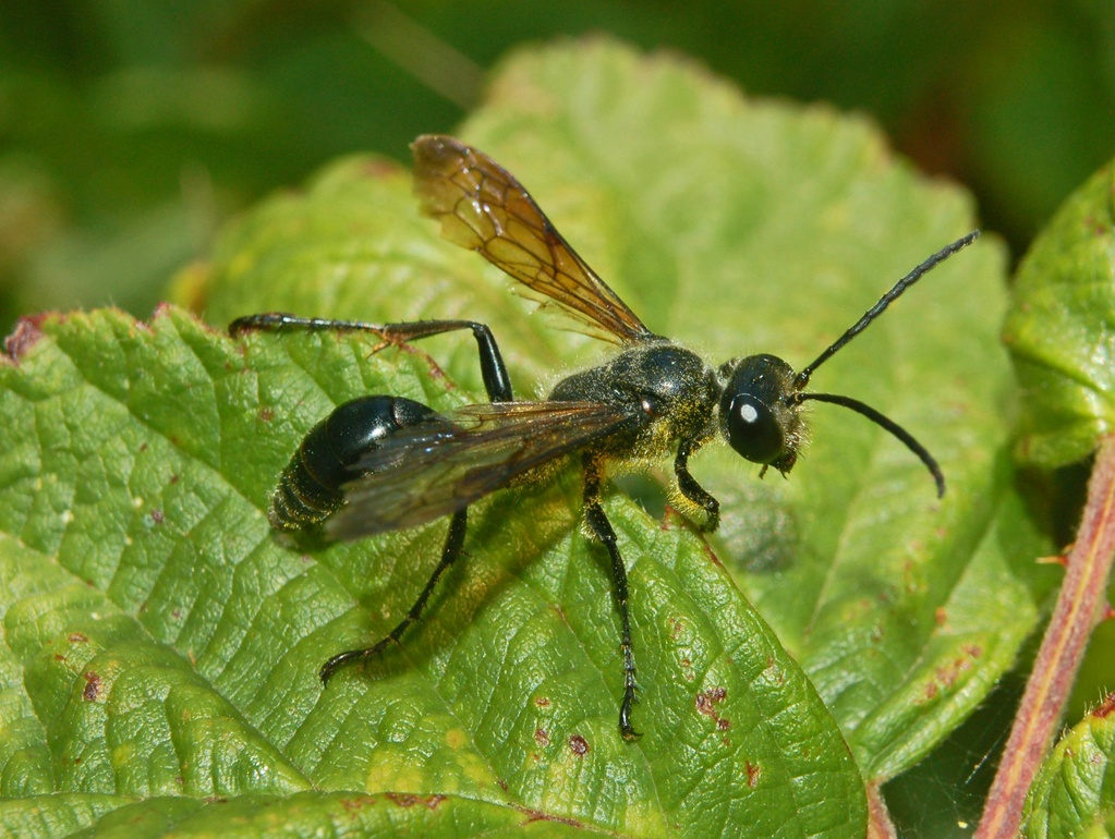 Isodontia mexicana